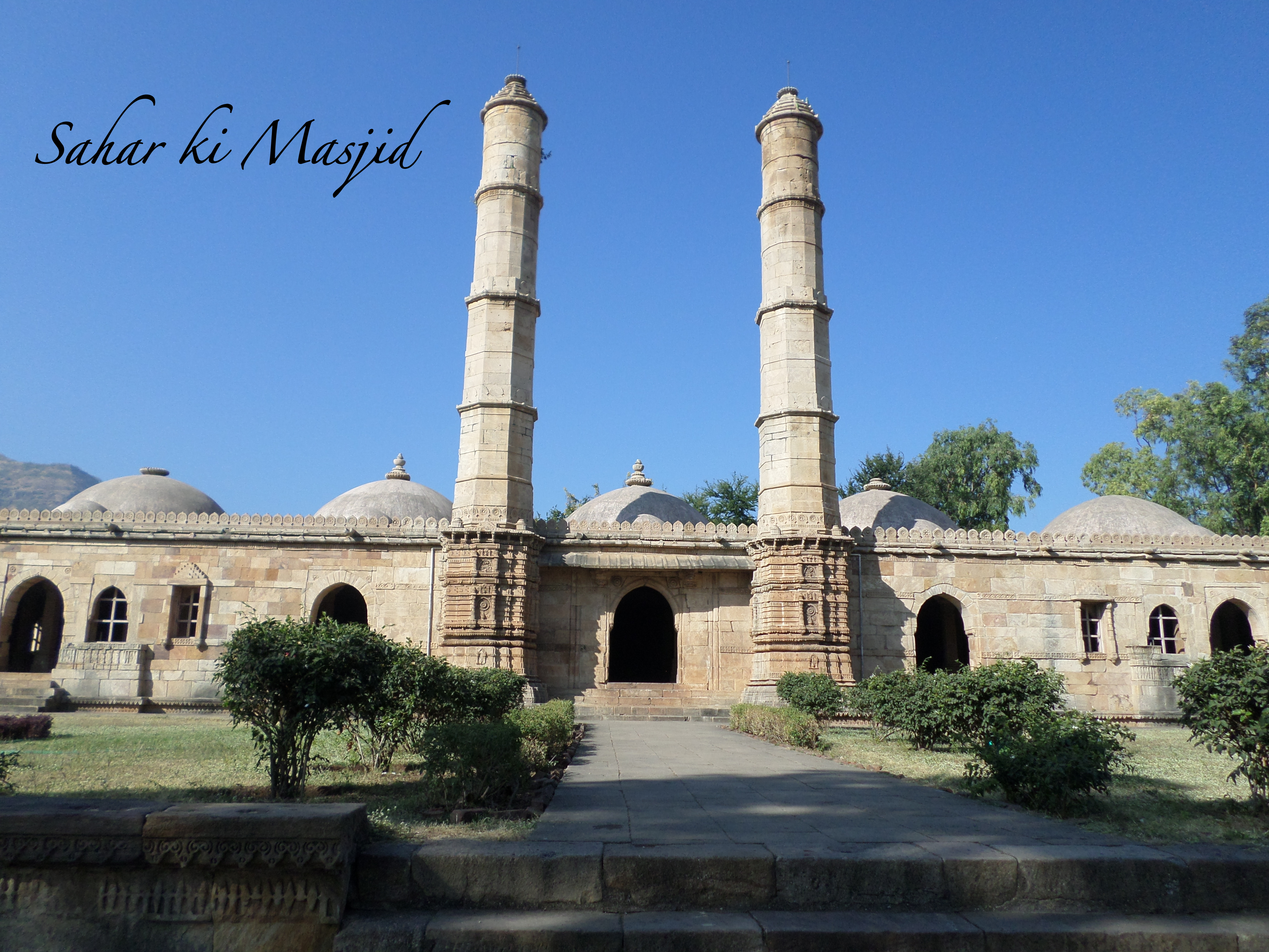 सहर की मस्जिद